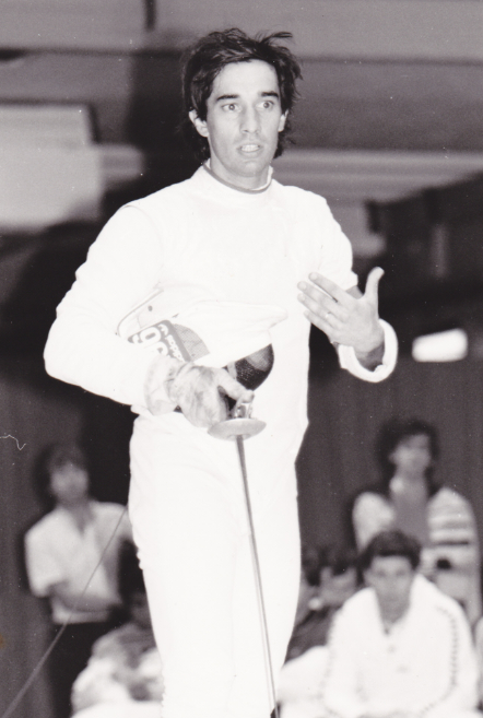 Picture of Marc Cerboni